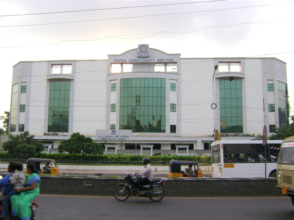 Tata Consultancy Services, Vadapalani